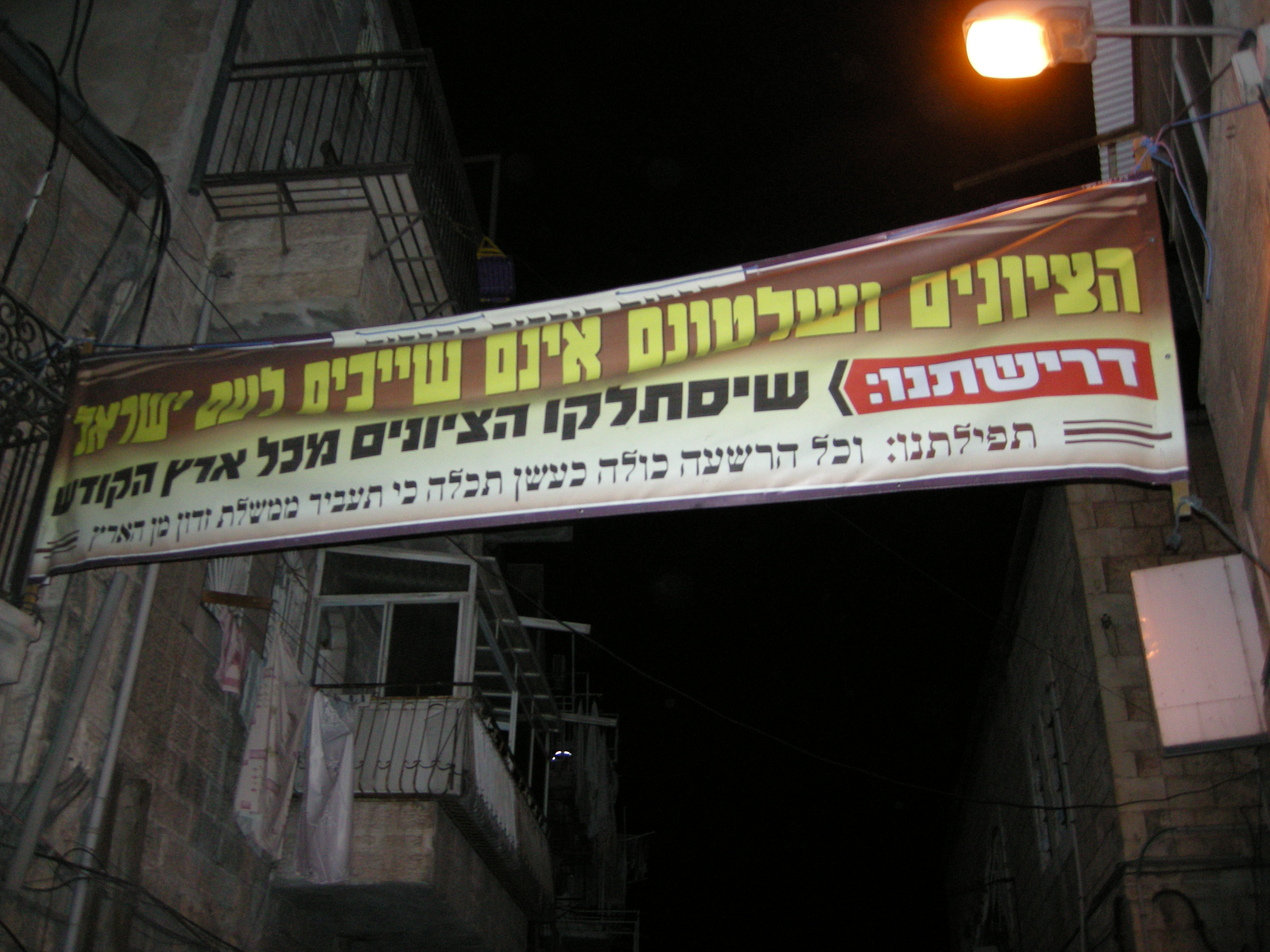 Mea Shearim